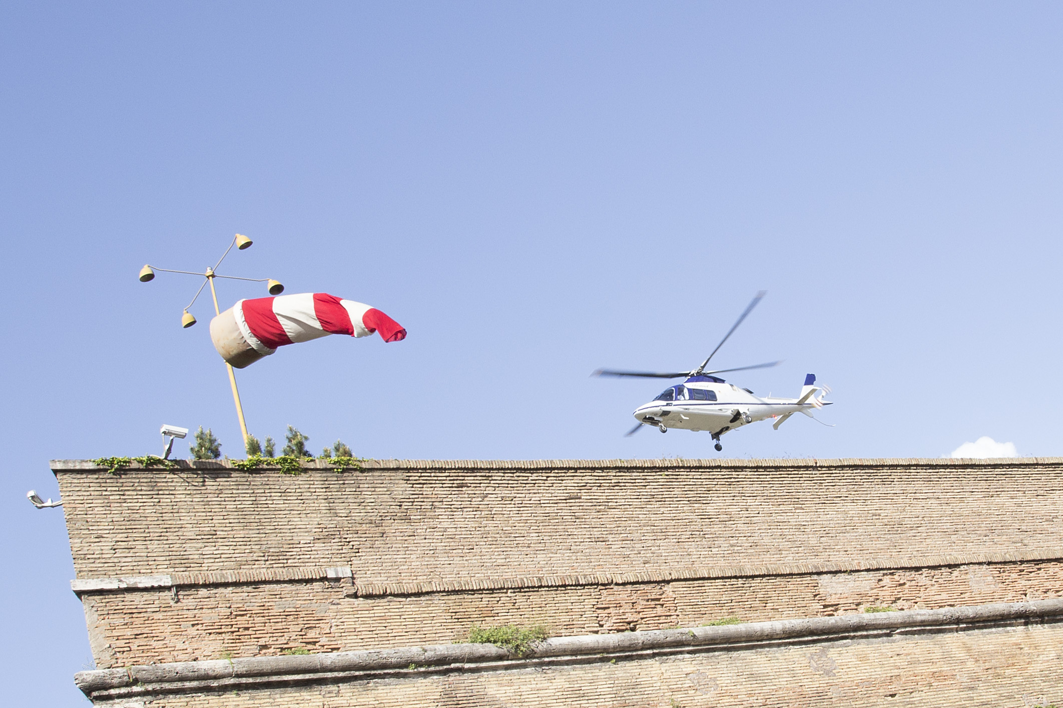 The helicopter which carried the emeritus pope, Benedict XVI, to the Vatican, lifts off the Vatican City heliport.